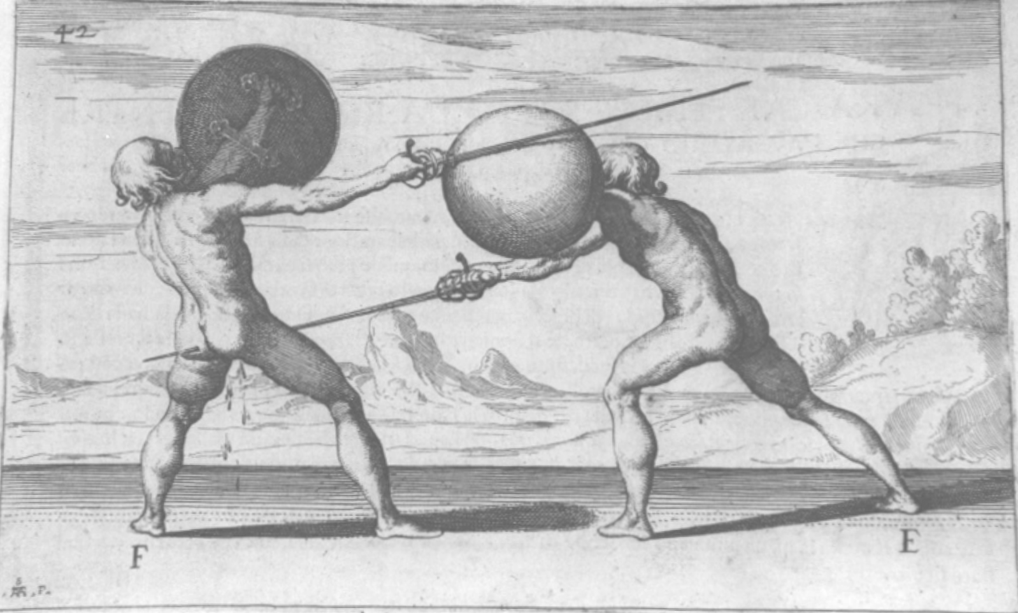 print of Ridolfo Capoferro from his 1610 treatise